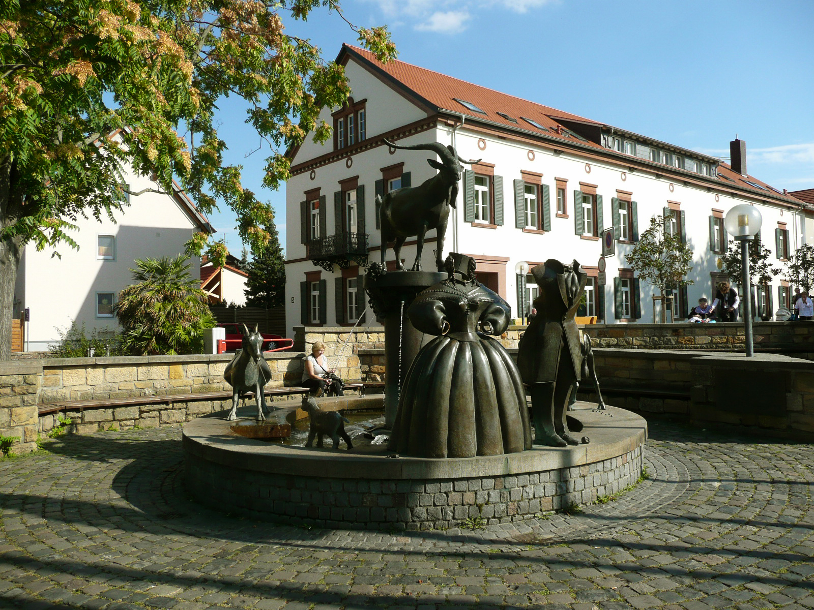 Fountain with goats at Deidesheim